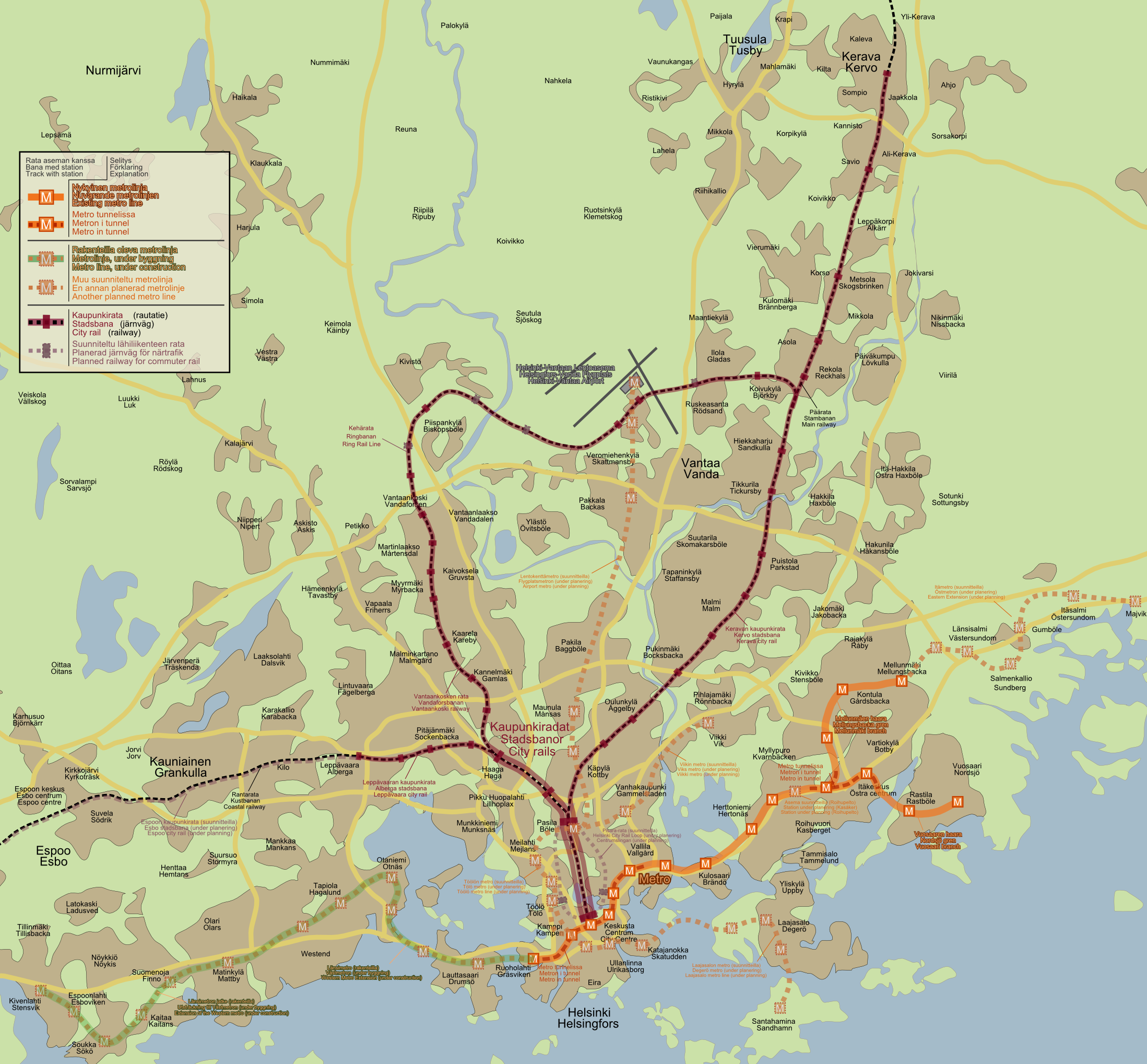 Trilingual (Finnish, Swedish, English) map of Helsinki Region commuter rail network with planned extensions (see Helsinki commuter rail and Helsinki metro). The languages are from top to bottom Finnish, Swedish and English where ever three languages are used. Where only two different names are listed, the top one is Finnish and the bottom one Swedish. The lone names are Finnish ones with no equivalent in other languages